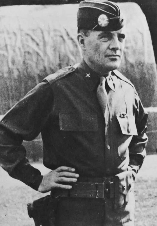 Anthony McAuliffe from License: No copyright disclaimer on picture, assumed public domain